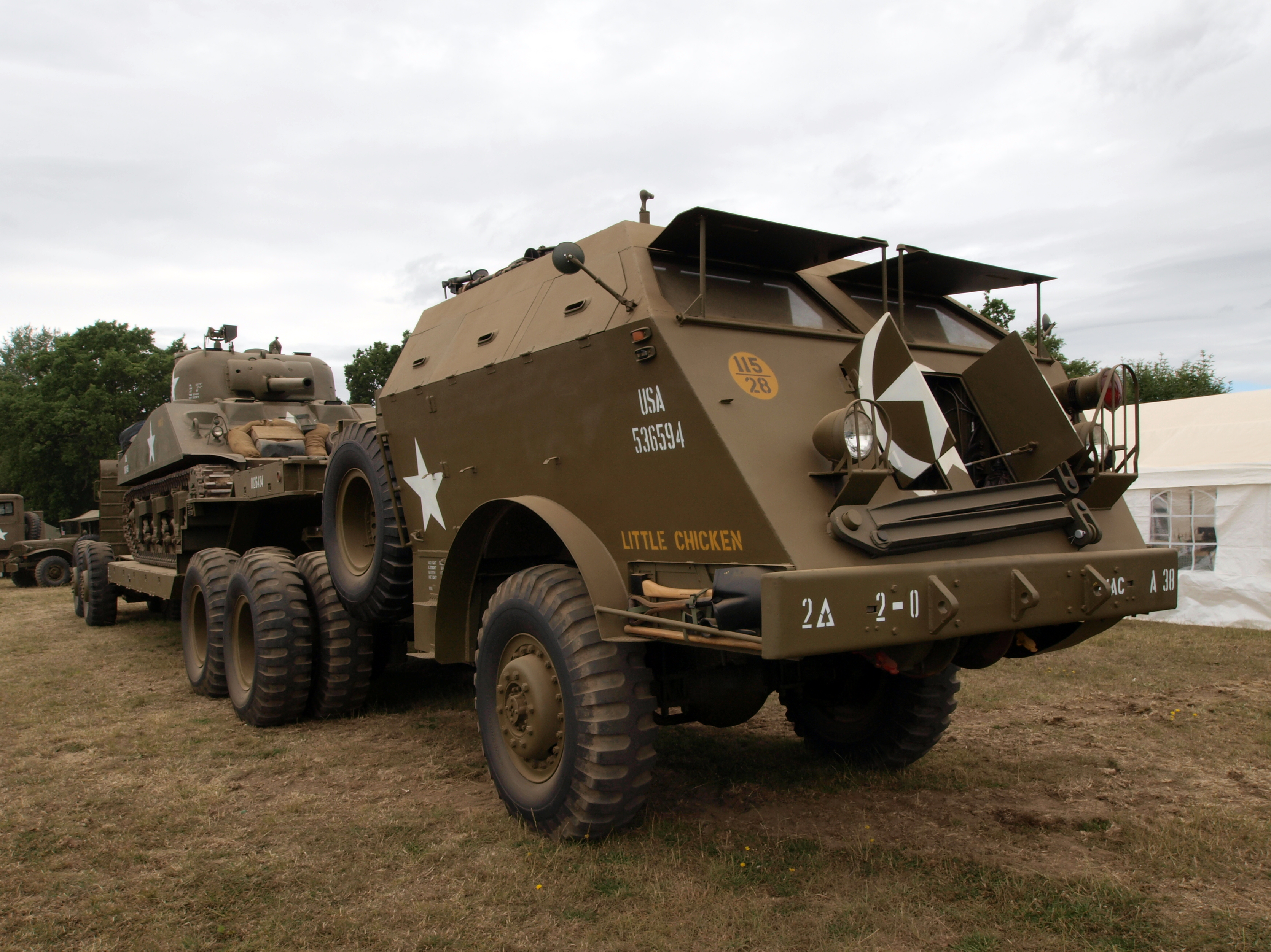 M25 Tank Transporter Dragon Wagon.